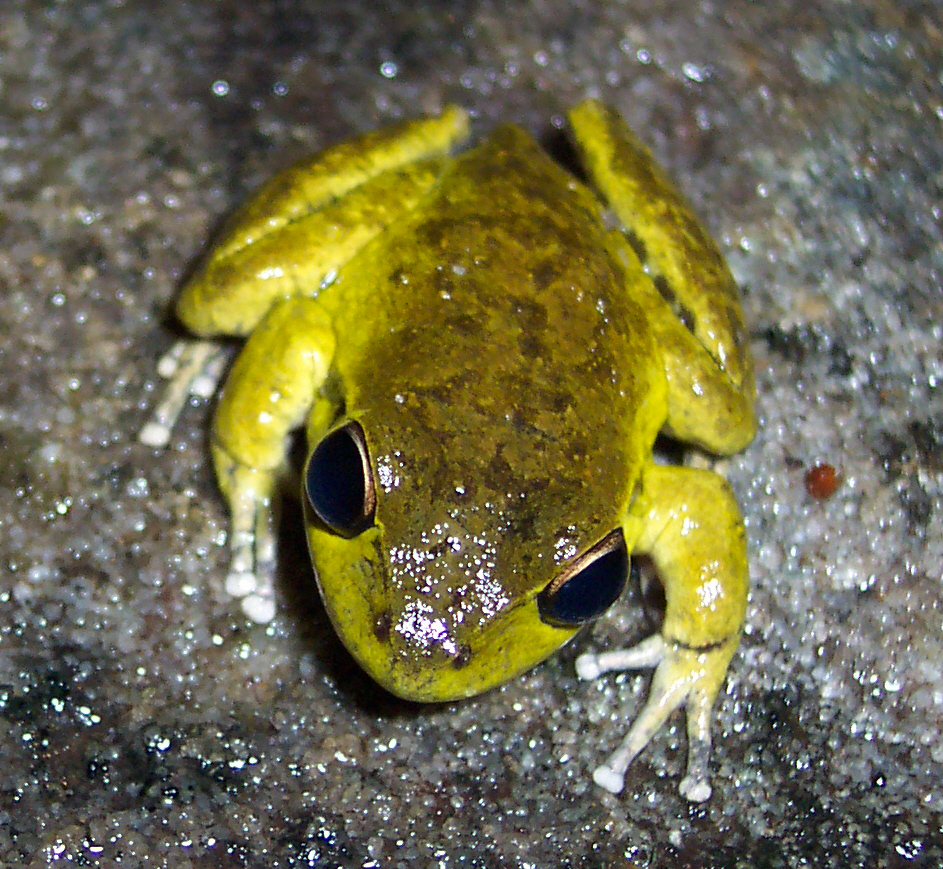 A male Lesueur's Frog (Litoria lesueuri)